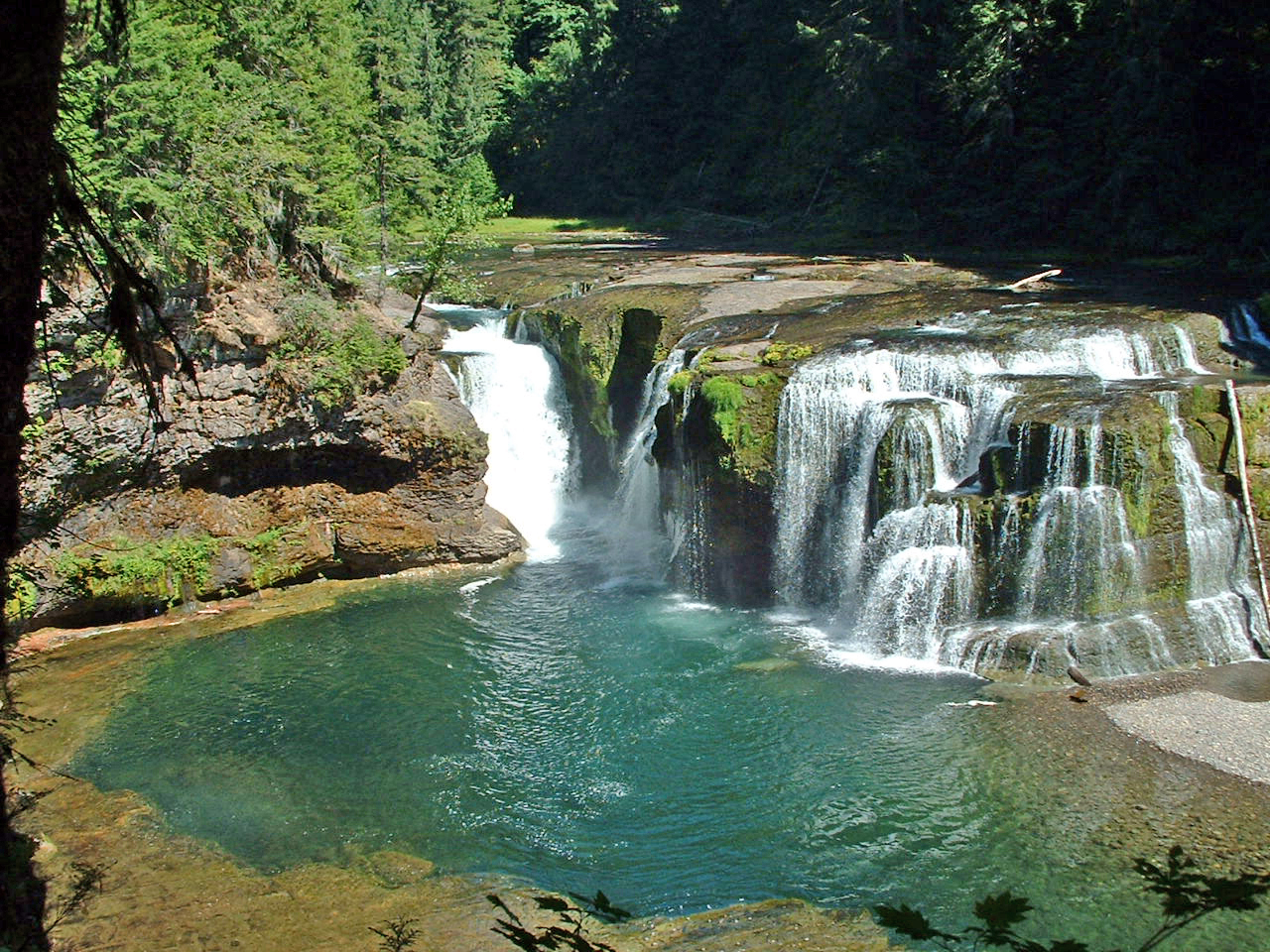 Lower Lewis Falls in the Gifford Pinchot National Forest, Skamania County, Washington